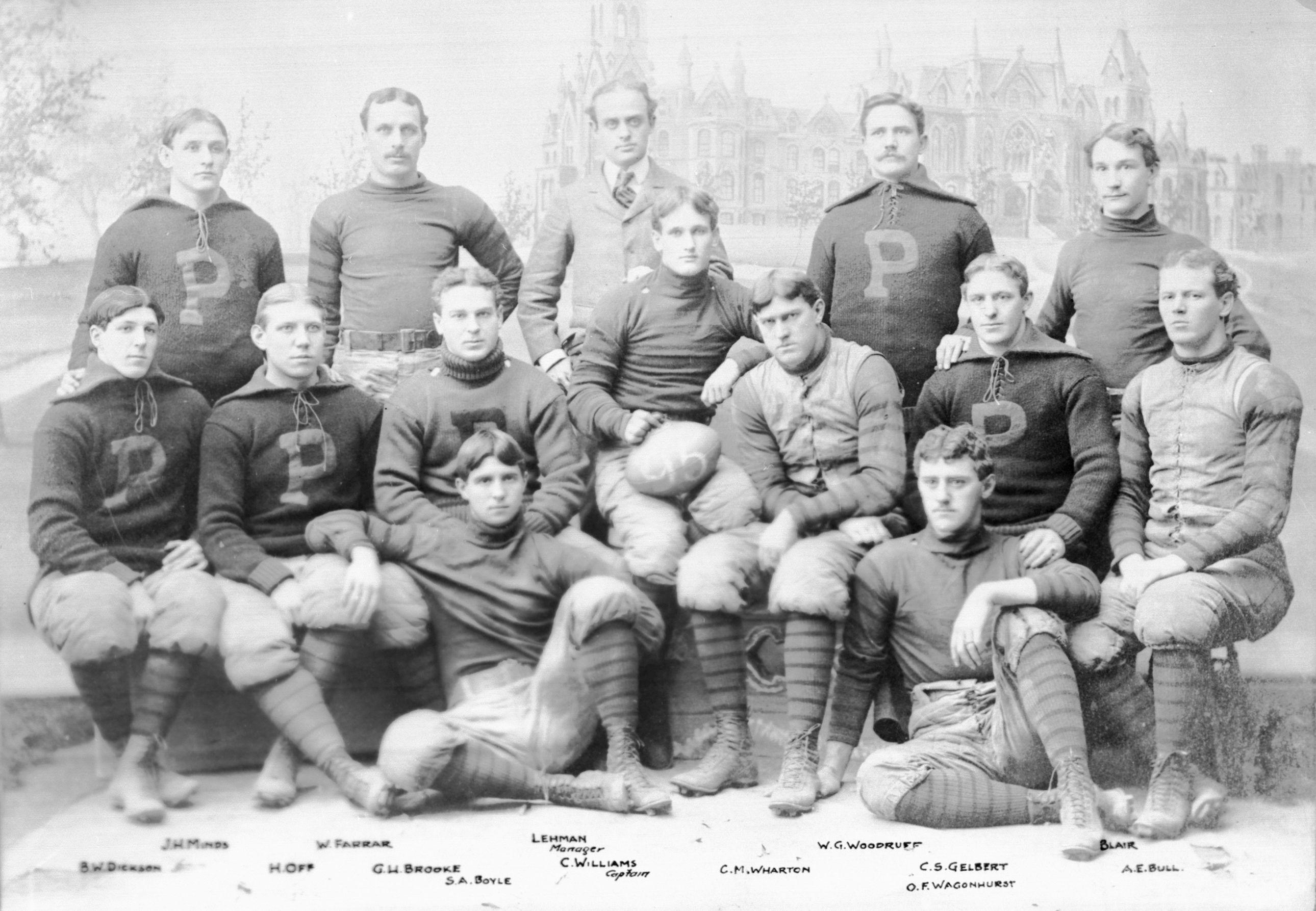 1895 Penn football team. 1) John H. Minds, 2) Wm. Farran 3) W. C. Lehman, Mgr 4) Wylie Woodruff 5) Edward Blair 6) Byron Dickson 7) Harry Off 8) George Brook 9) Samuel Boyle 10) Carl Williams, capt. 11) Chas. Wharton 12) Otto Wagenhurst 13) Charles Gilbert 14) Alfred Bull